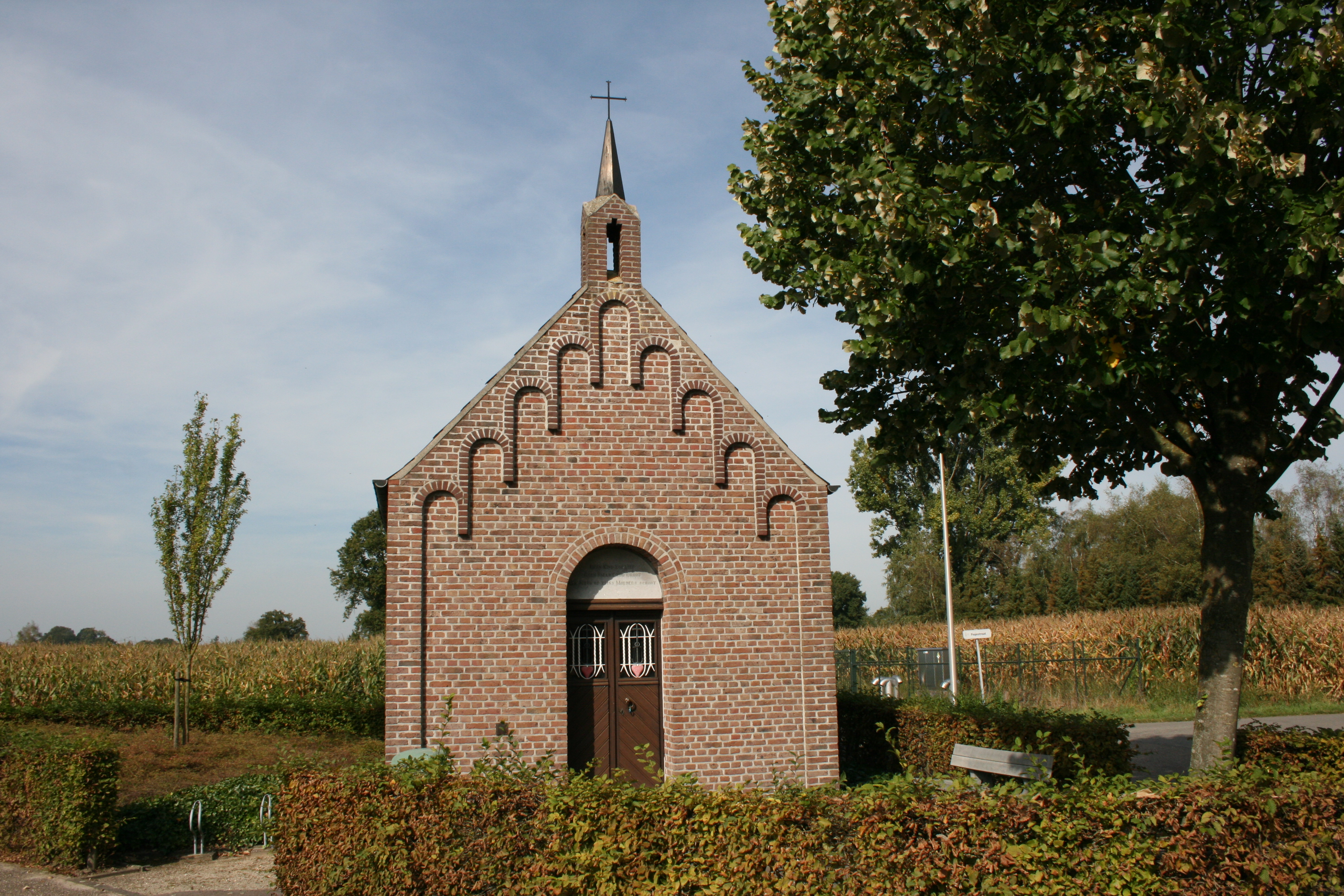 The Daalkapel is a chapel located in Molenbeersel.The chapel is dedicated to Our Lady of Sorrows.